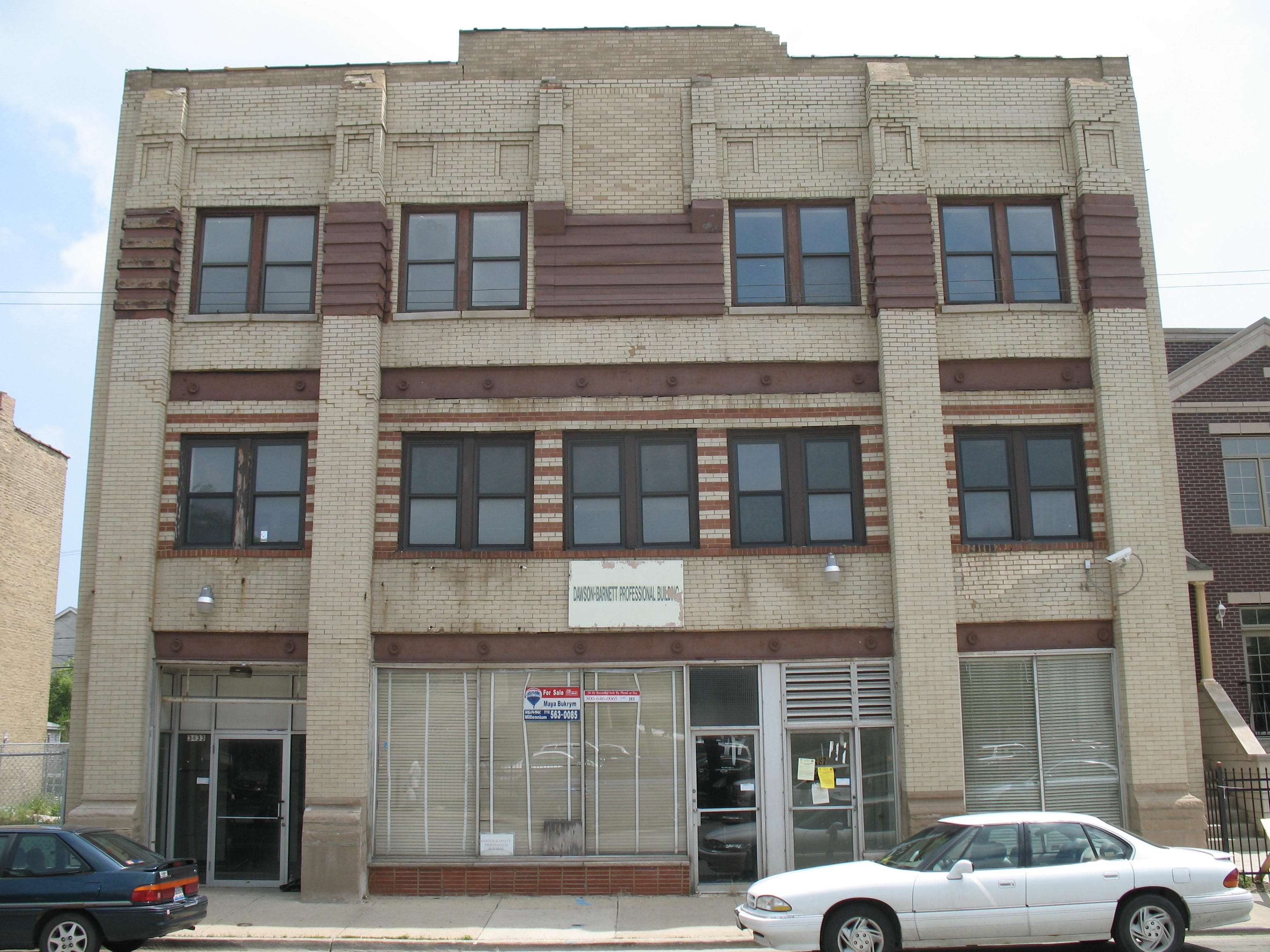 Chicago Defender Building door